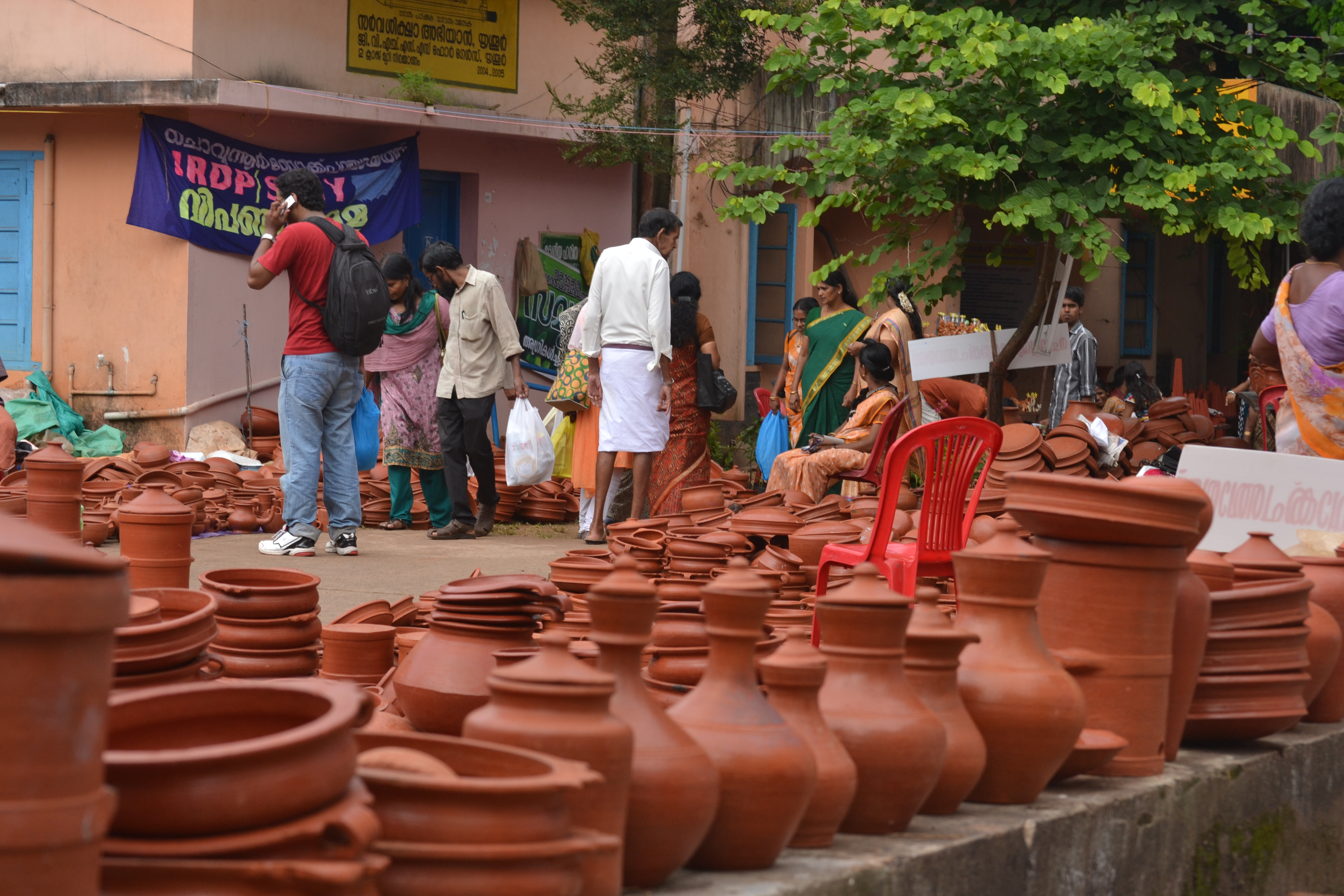 This media file is uploaded with Malayalam loves Wikimedia event - 3.